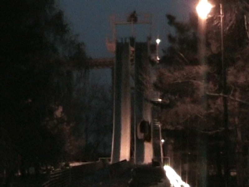 The final drops of White Water Landing at Cedar Point at night.